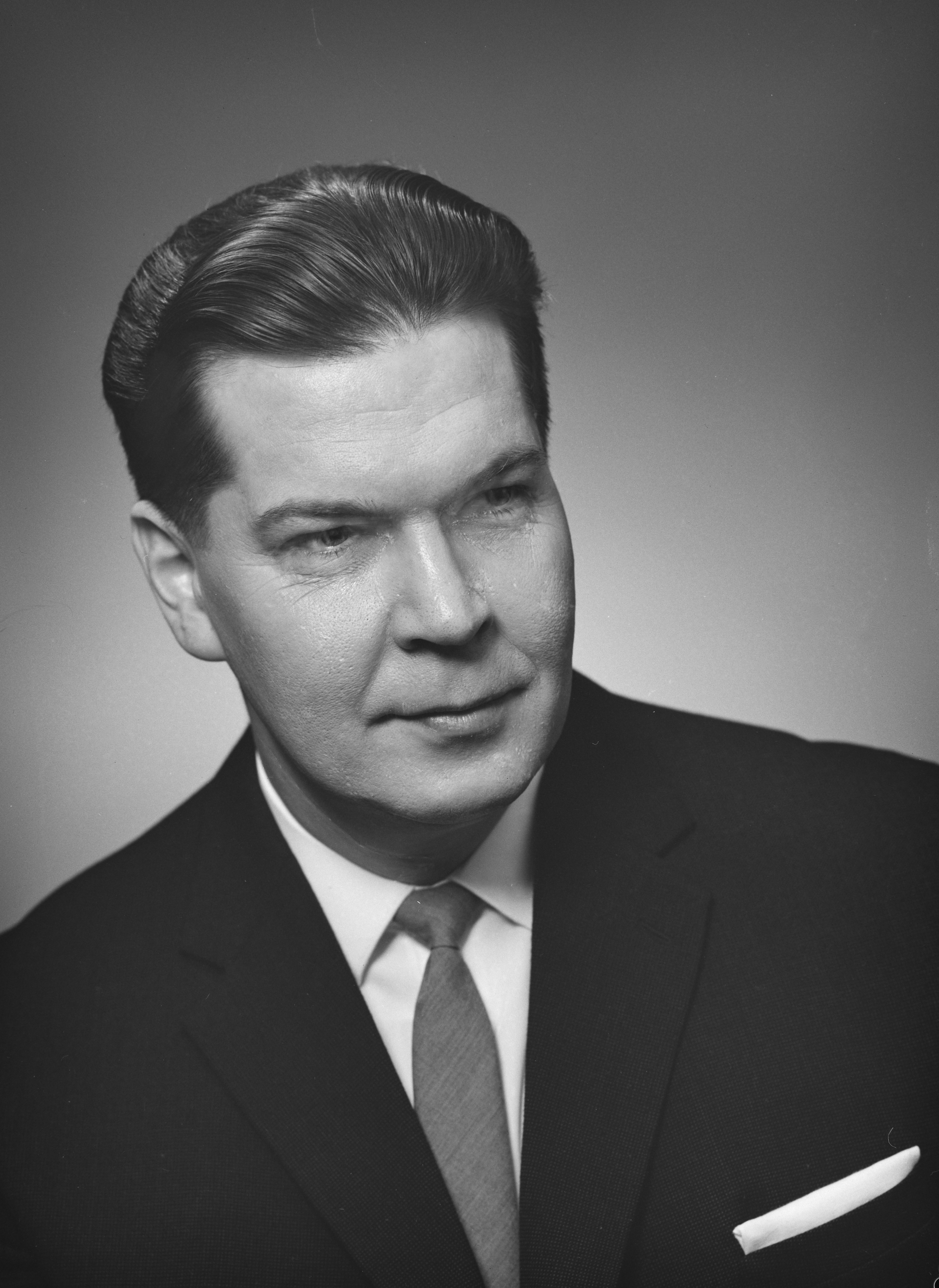 Photograph of the Finnish writer Mauri Sariola (1924–1985).